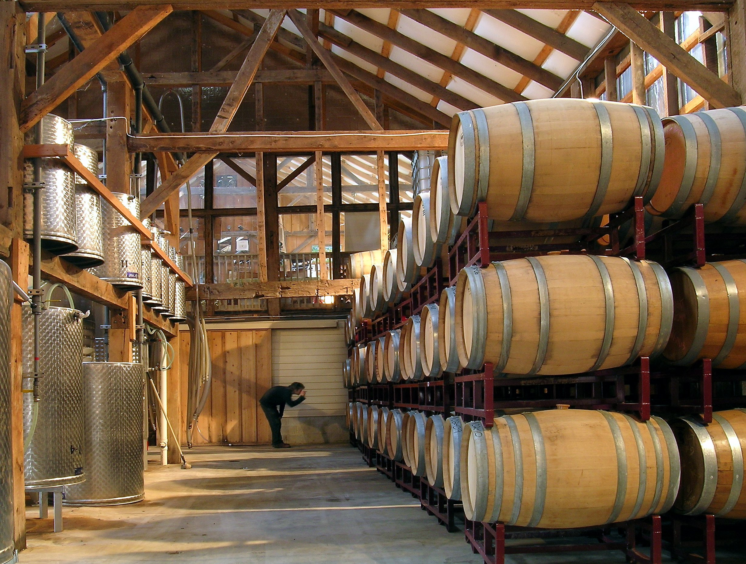 A picture of the winery floor at Unionville Vineyards in Ringoes, NJ. Unionville Vineyards ages most of its wines in neutral French oak barrels.